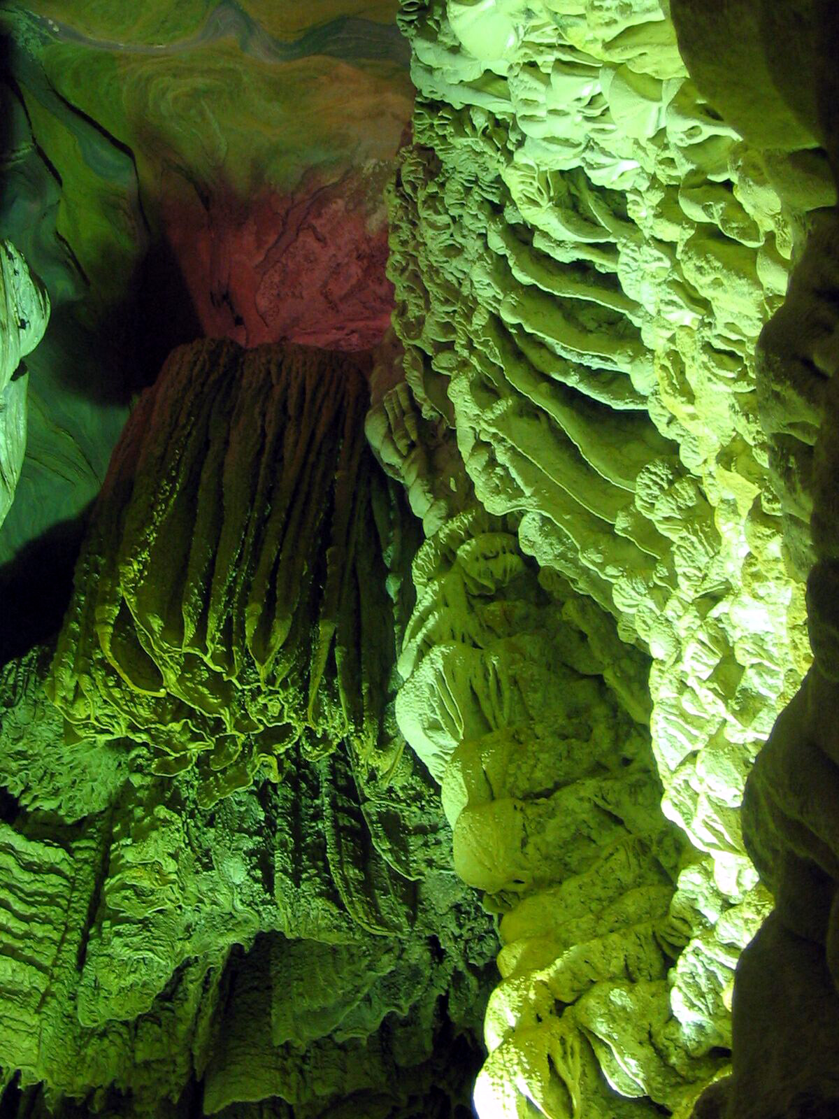 Complex group of shawls in the ceiling of Gruta da Lapinha, near Belo Horizonte, MG, Brazil. Complexo conjunto de cortinas na Gruta da Lapinha, próximo a Belo Horizonte, MG, Brasil